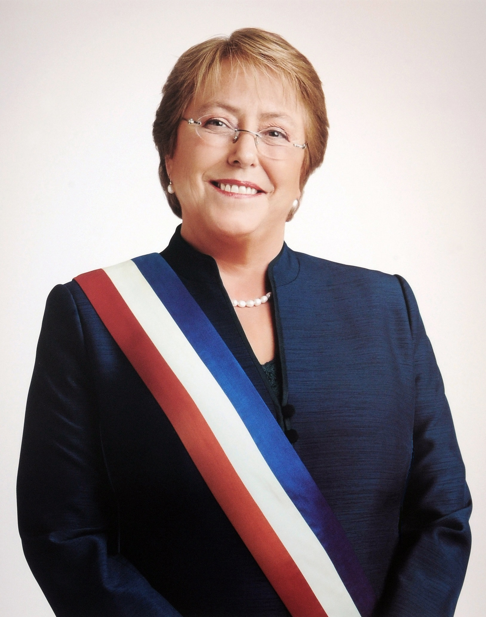 Official Portrait of Mrs. President of the Republic Michelle Bachelet Jeria, Period 2014-2018.